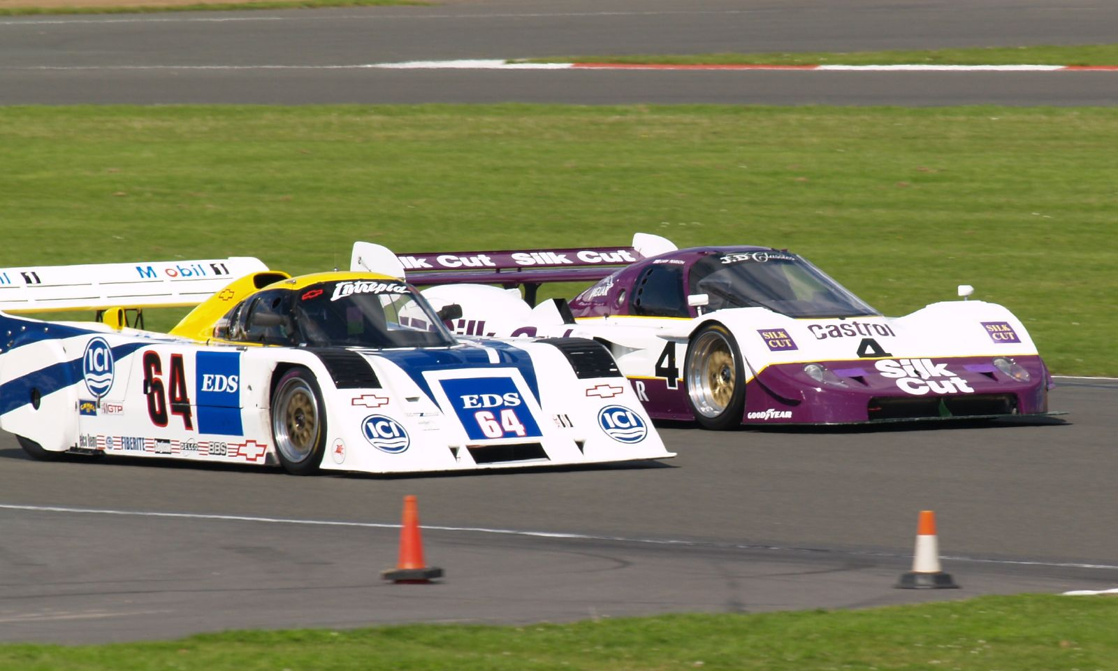 An Intrepid RM-1 Chevrolet and Jaguar XJR-11 at the Silverstone Classic